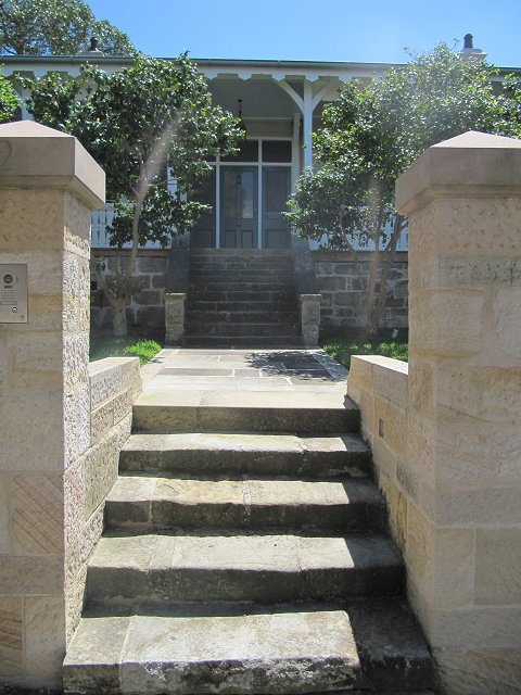 The Chalet